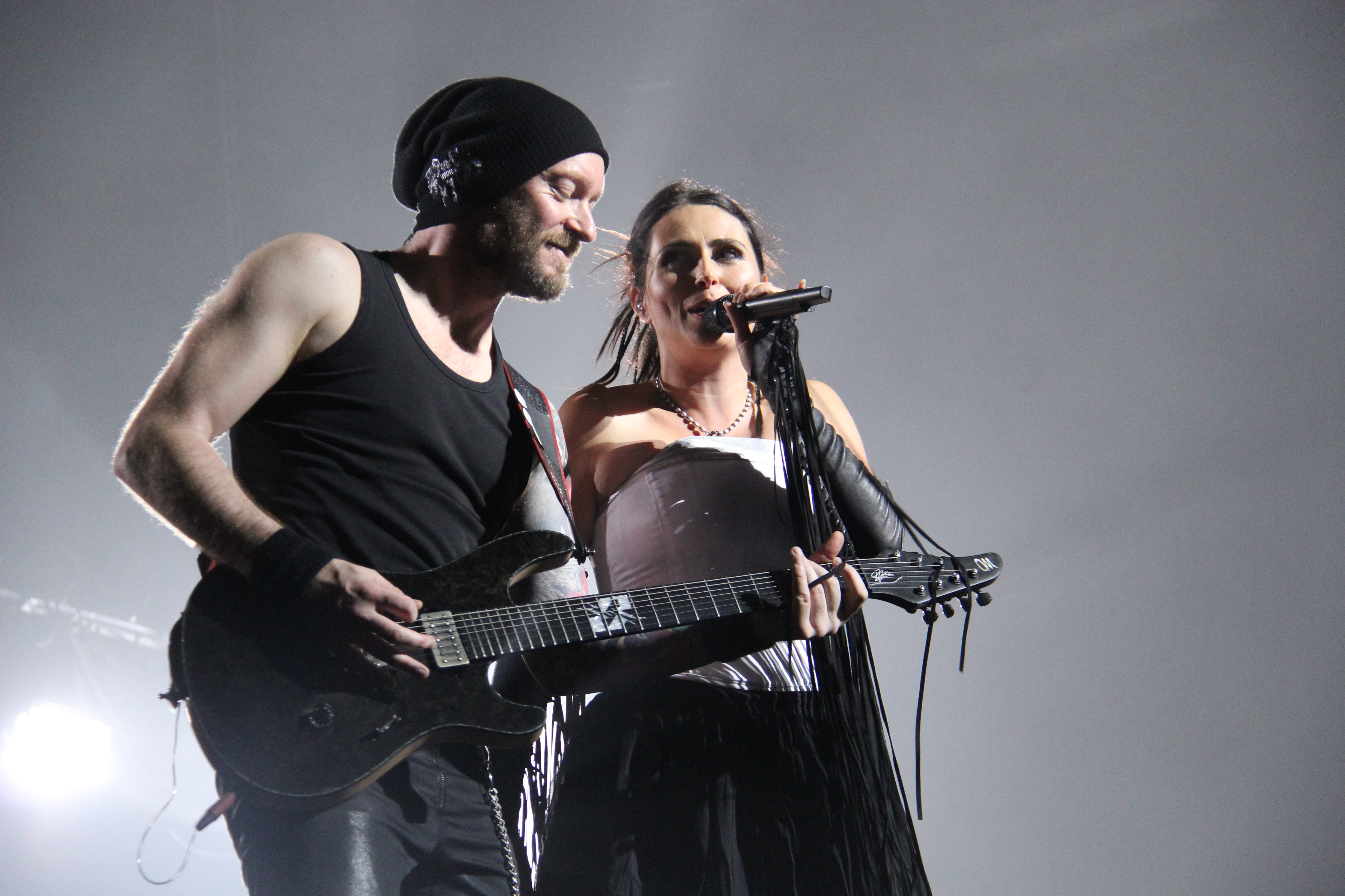 Within Temptation's lead vocalist Sharon den Adel and guitarrist Ruud Jolie during a concert at the Club Nokia, Los Angeles, during their Hydra World Tour.